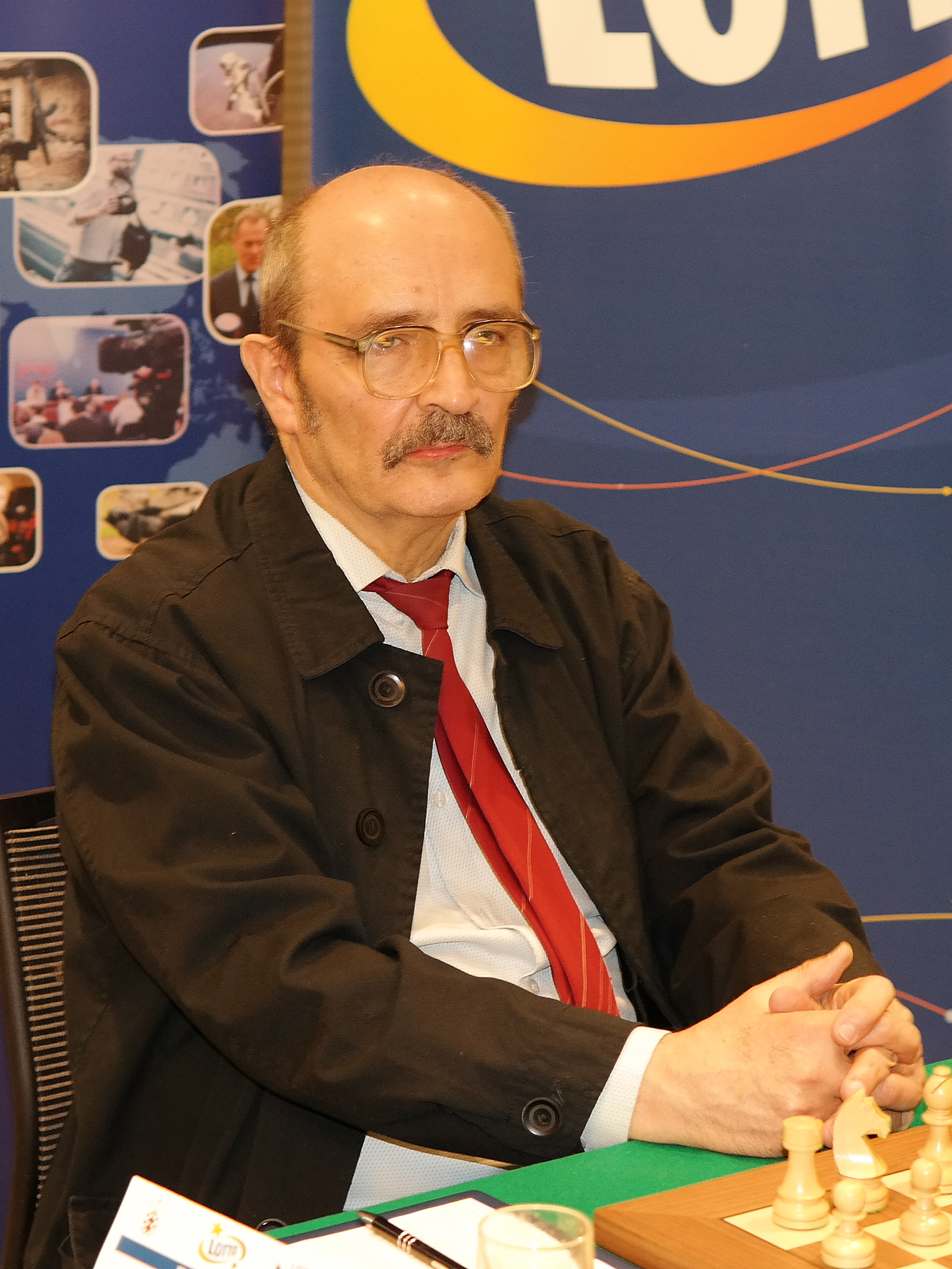 IM Jan Adamski, Polish Chess Championship, Warsaw 2014